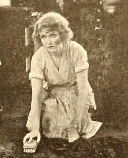 Still from the American film The Uplifters (1919) with May Allison, on page 759 of the July 19, 1919 Motion Picture News.